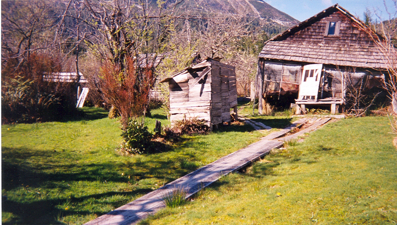 Cougar Annie's House in 1998. Picture taken by me in 1998